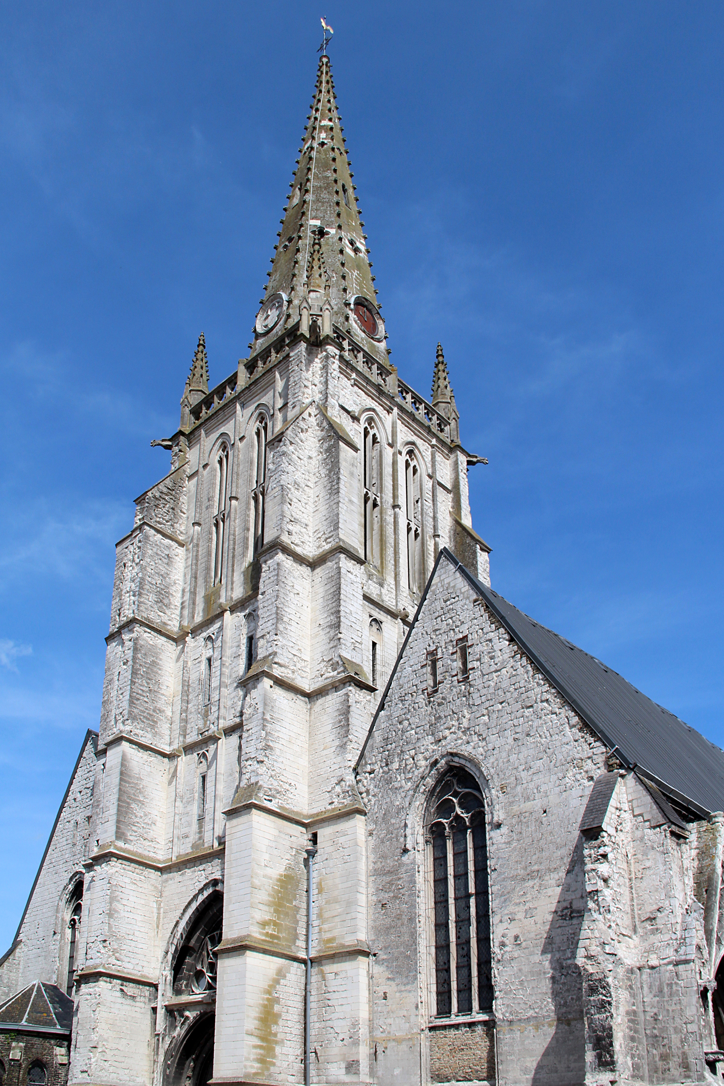 Saint-Omer (Pas-de-Calais, France), the Church of "Saint-Sépulcre - Holy Sepulchre" (XIII-XIV centuries).